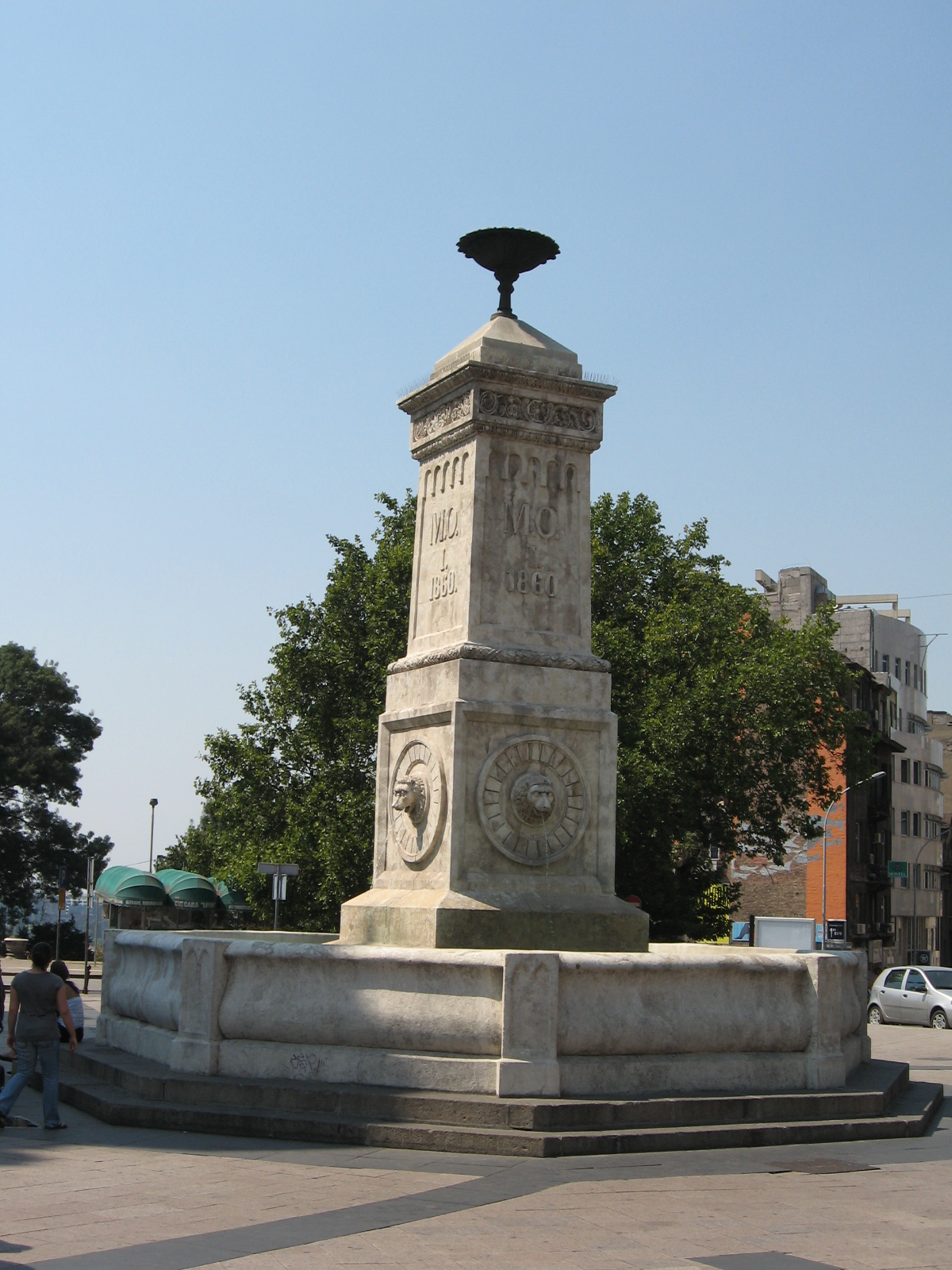 Terazije fountain